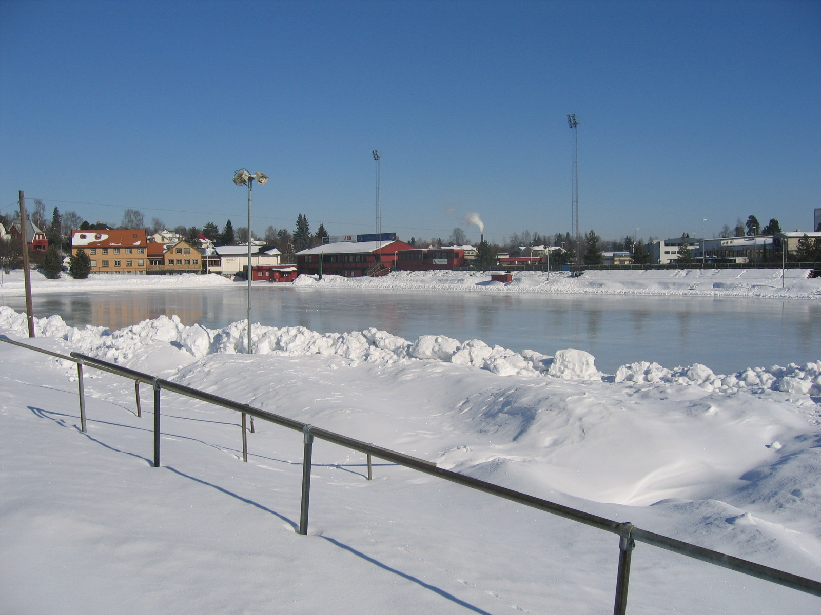 Hamar Stadion, Hamar, Hedmark, Norway. The arena has hosted the Speed Skating European Championship five times and World Championship four times. Five world records has been set here.